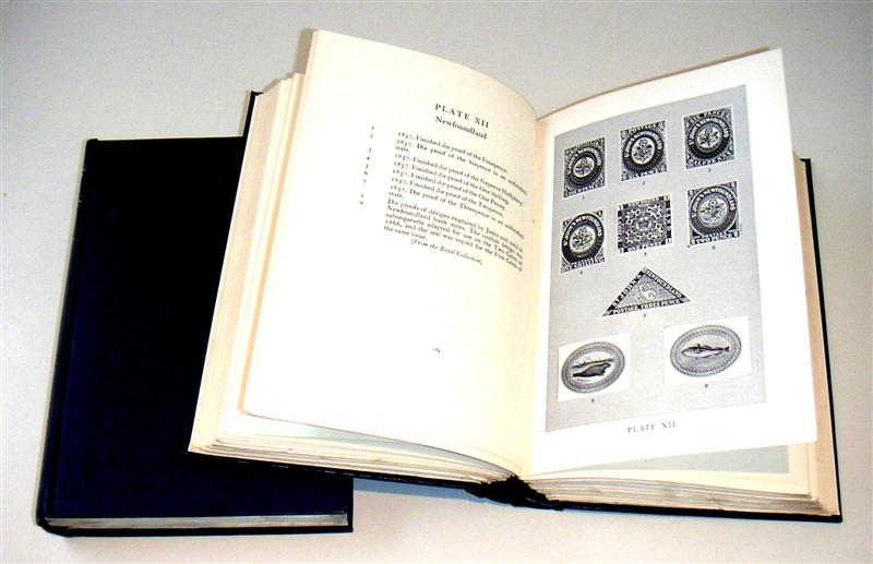 Perkins Bacon Records by Percy de Worms.